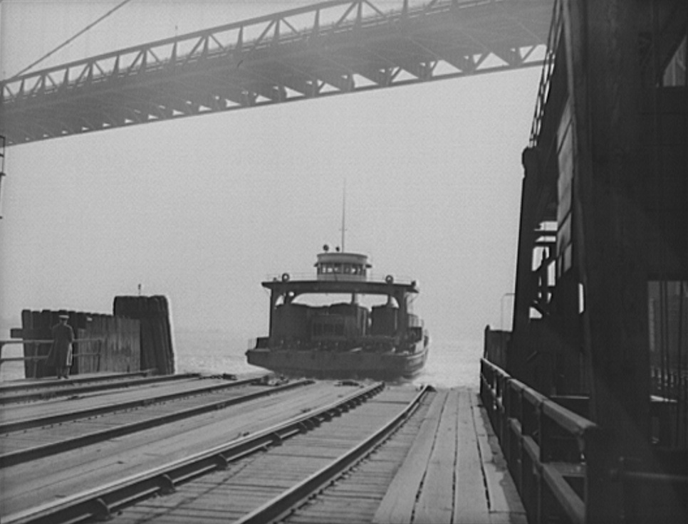 A loaded train ferry approaching the dock in Detroit, Michigan, April 1943 Photo by Arthur S. Siegel, United States Office of War Information. Library of Congress call number LC-USW3-021646-C. [1] (retrieved November 23 en:2005) asserts "Photographs in this collection were taken by photographers working for the U.S. Government. Generally speaking, works created by U.S. Government employees are not eligible for copyright protection in the United States."